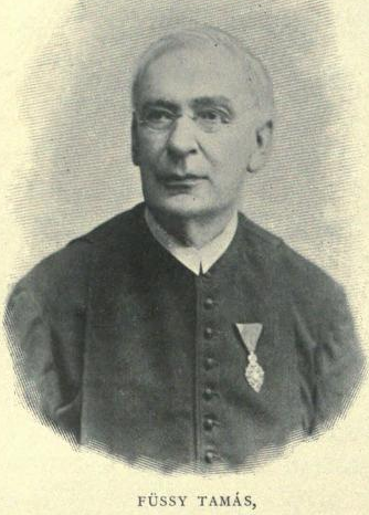 Portrait of Füssy Tamás